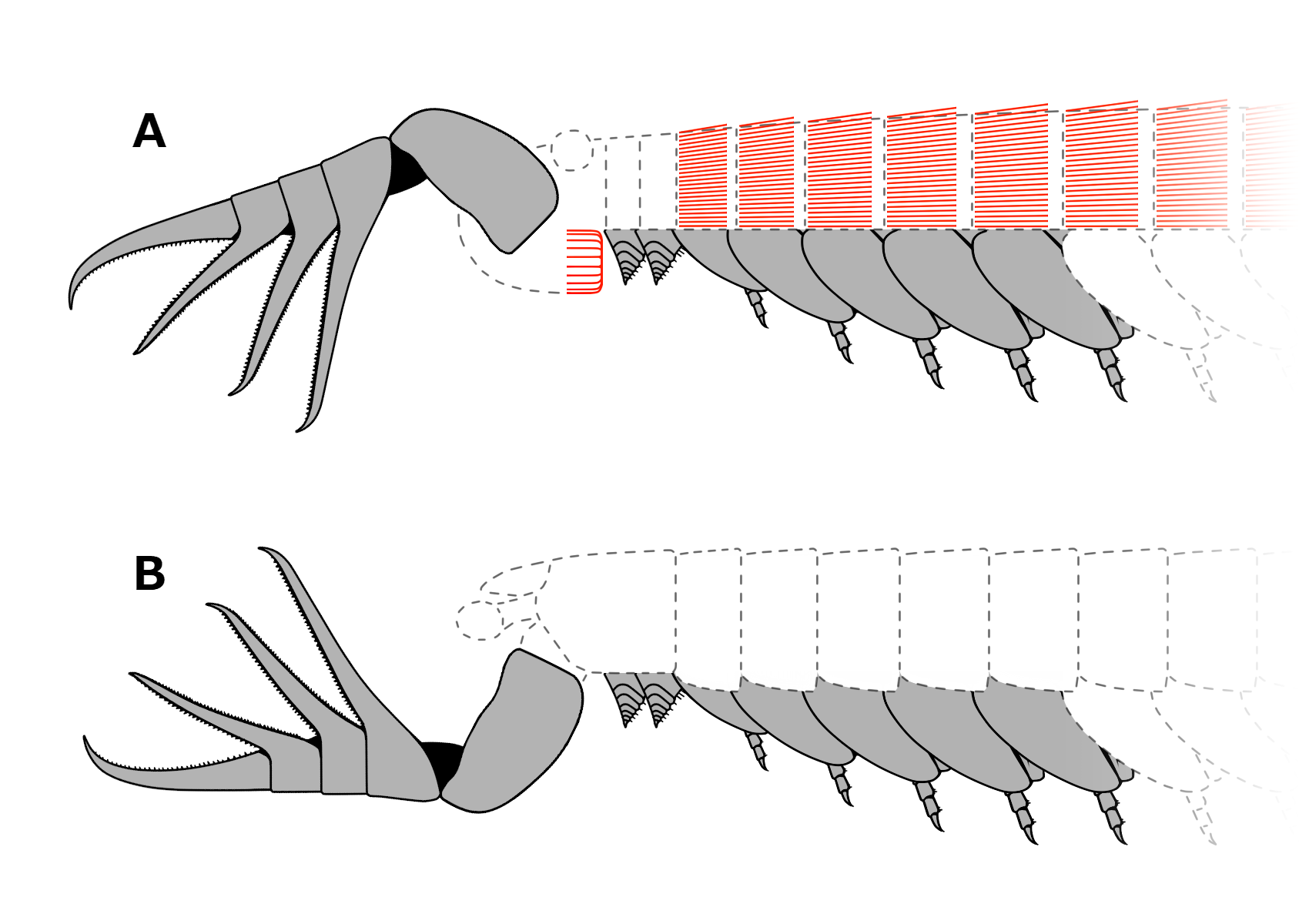 Original (A) and later (B) interpretation on Parapeytoia yunnanensis, as an anomalocaridid (radiodont) and megacheiran respectively. Red: Proposed anomalocaridid-like structures from fossil materials with questionable affinity Dark grey: Other structures with direct fossil evidence Light grey: Speculative structures without direct fossil evidence